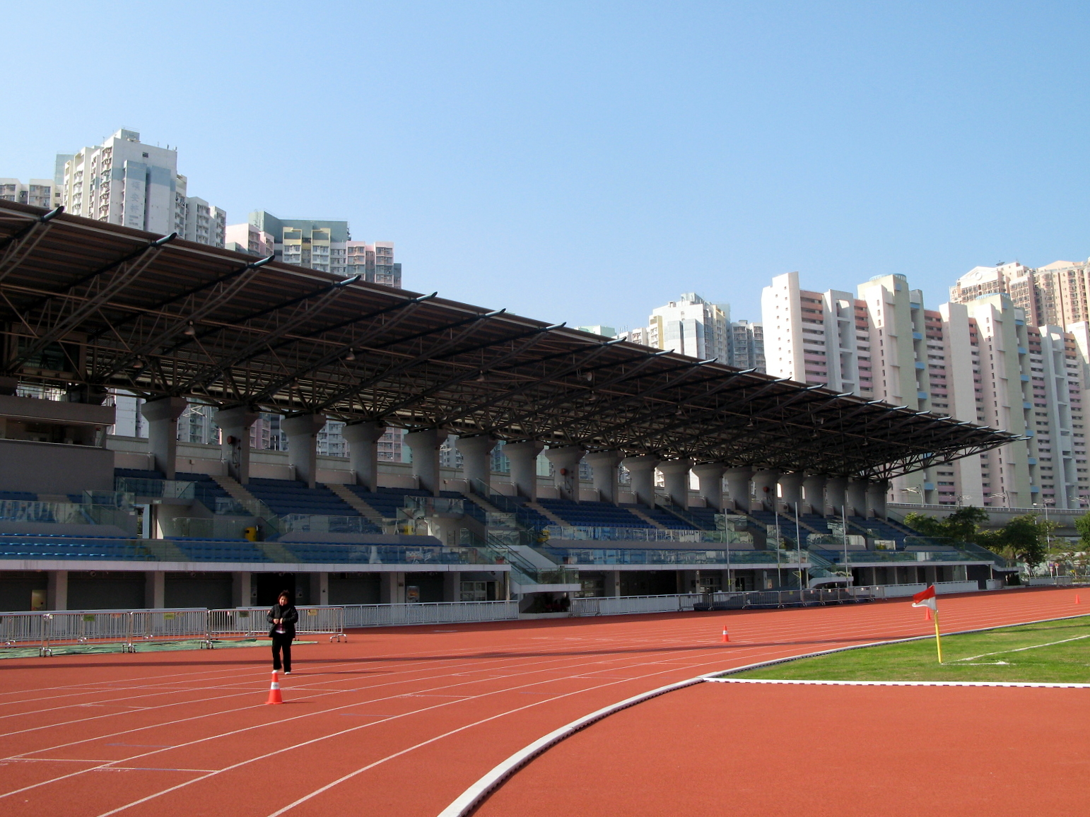 HK Ma On Shan Sports Ground Platform